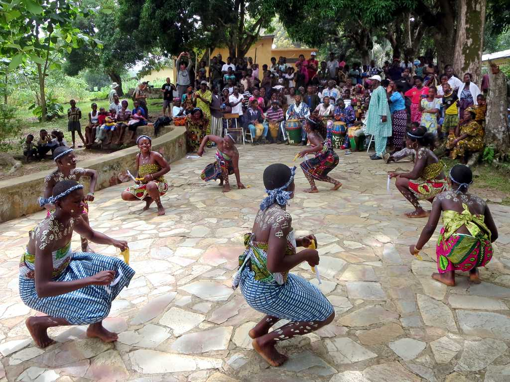 Traditional Ewa dancers perform the bobobo dance at the Hotel Campement de Kloto in the Forêt de Missahohe at Kouma-Konda village near Kpalime, Togo.